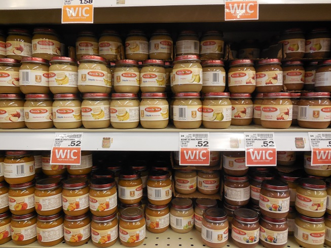 Beech Nut Jarred Baby Food